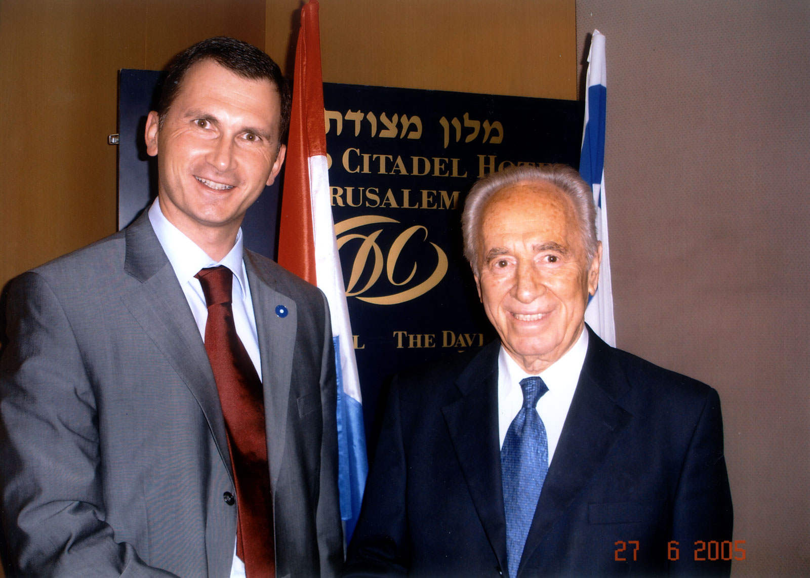 Dragan Primorac i Shimon Peres, predsjednik Države Izrael - Dragan Primorac and Shimon Peres, president of the State of Israel